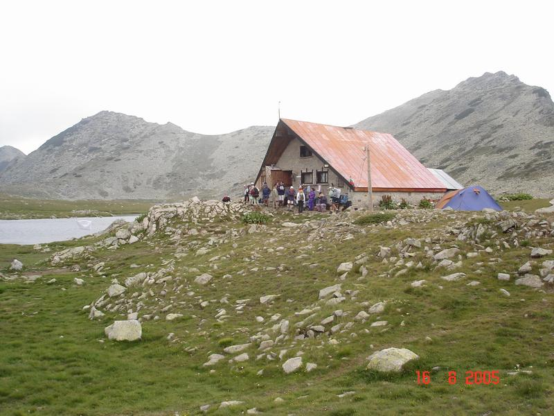 "Tevno ezero" - shelter in Pirin mountain in Bulgaria